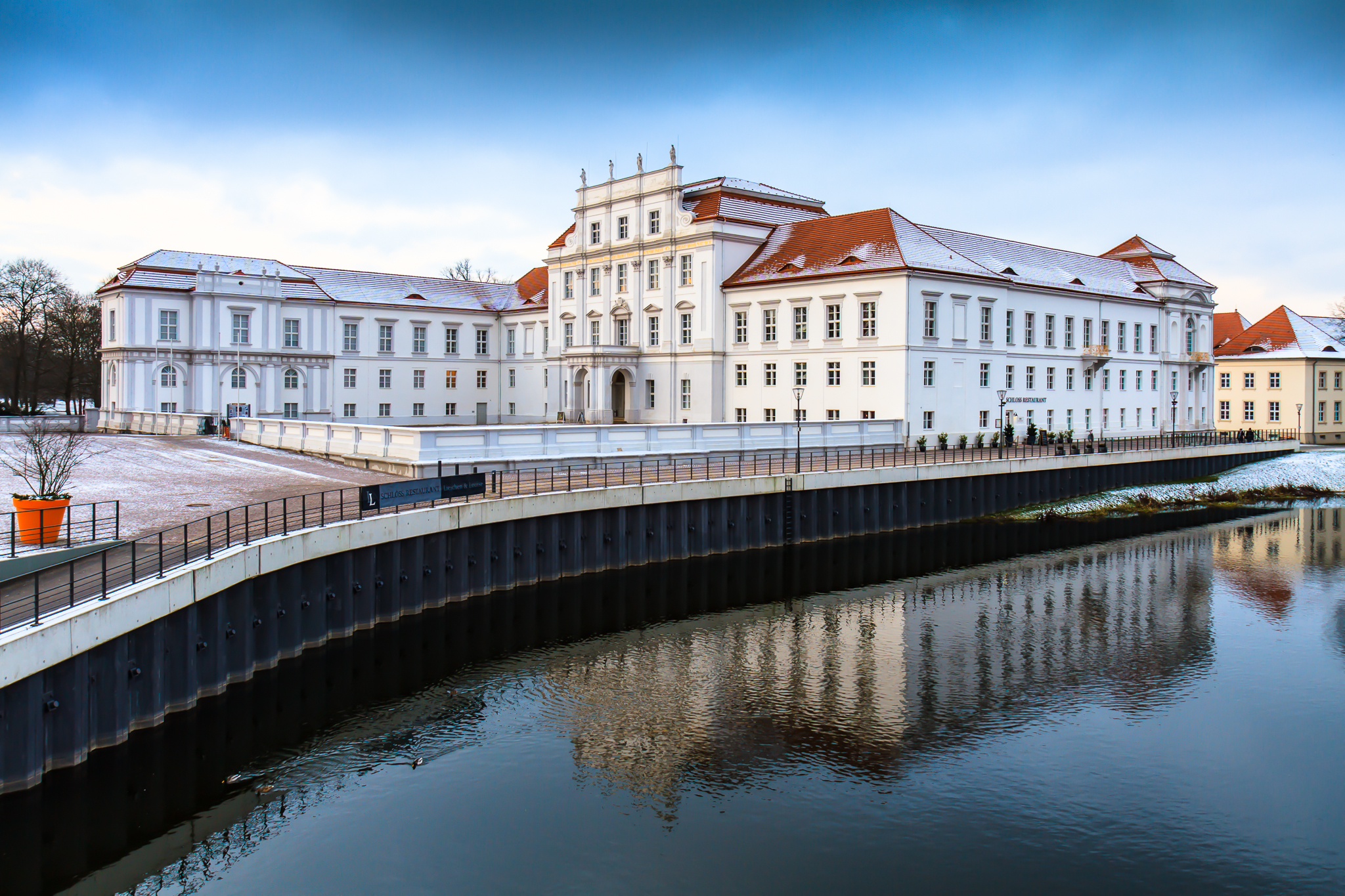 Oranienburg Palace in January 2013